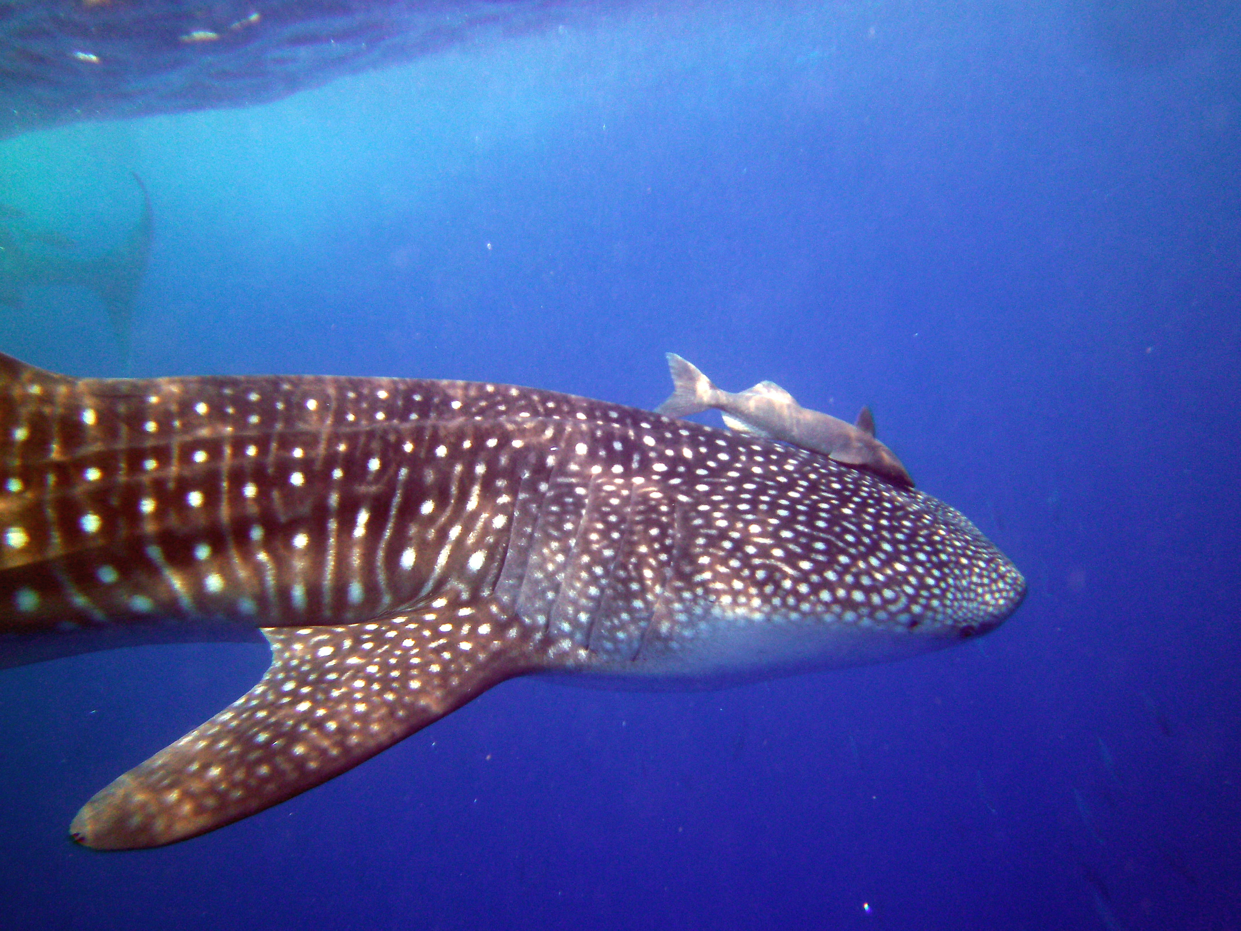 Whale shark (Rhincodon typus)